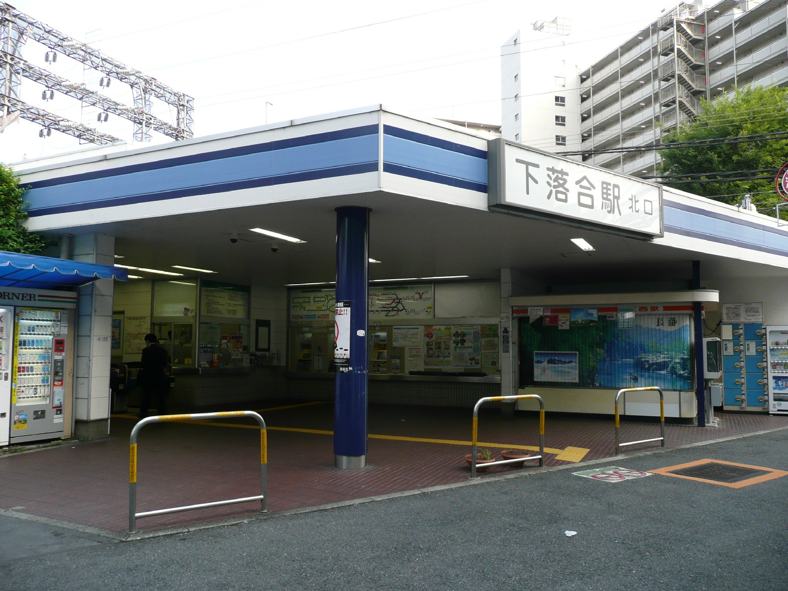 Shimo-Ochiai Station on the Seibu Shinjuku Line in Tokyo, Japan